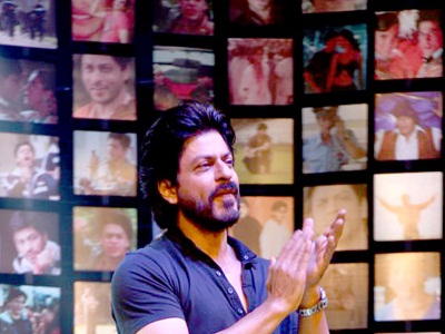 Shah Rukh Khan at the release of the theatrical trailer of Fan (2016).